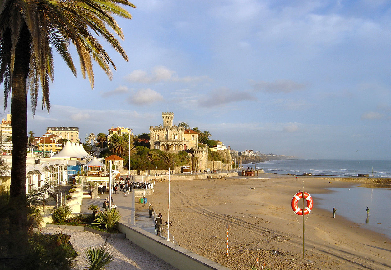 Portugal - Estoril by Michel Y. G. Meunier